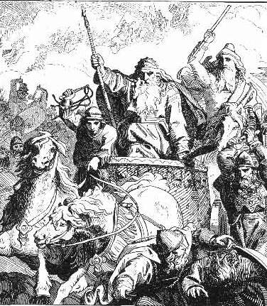 Category:Images from Norse mythology